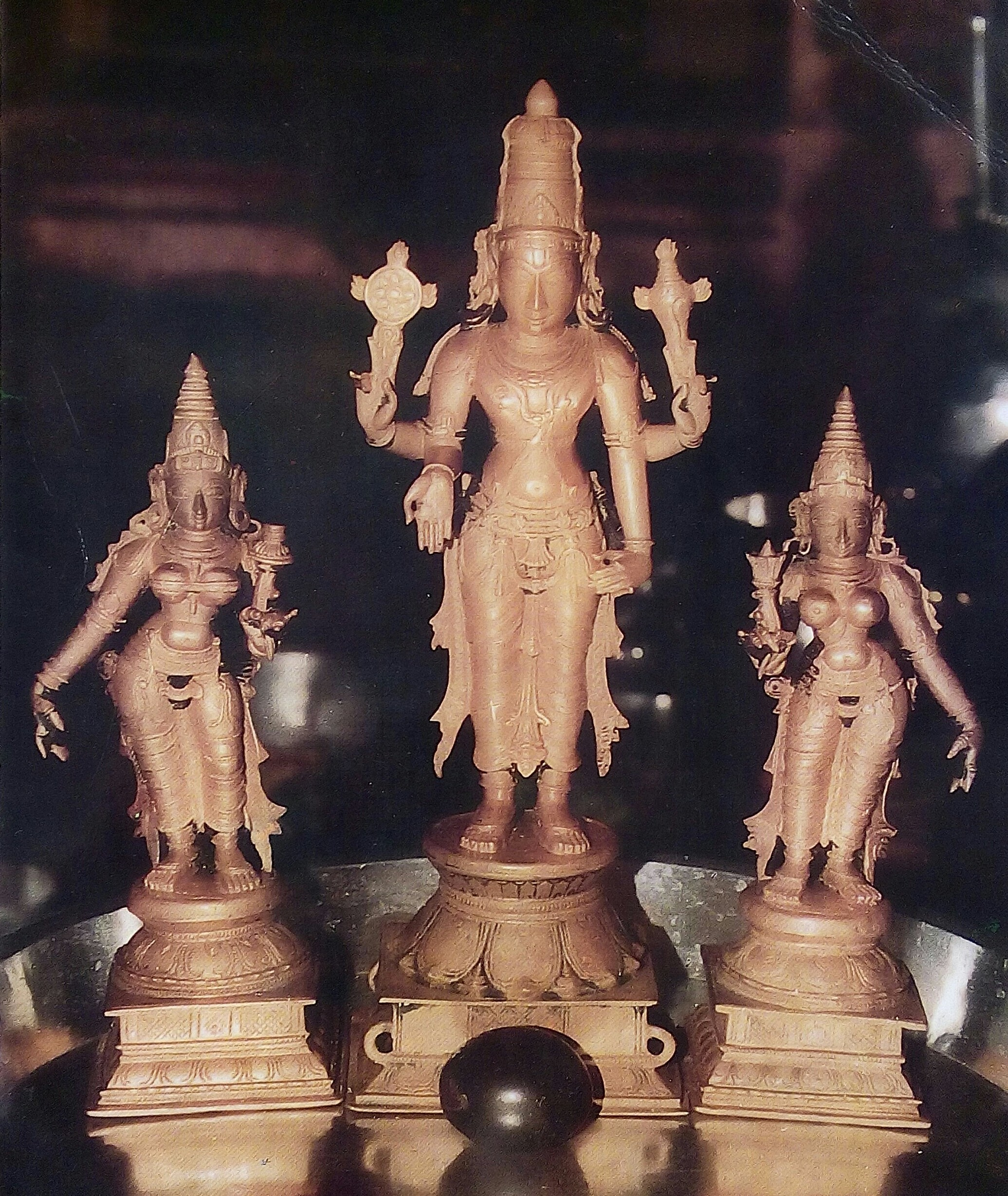 Presiding deity of Cochin Thirumala Devaswom, Cochin